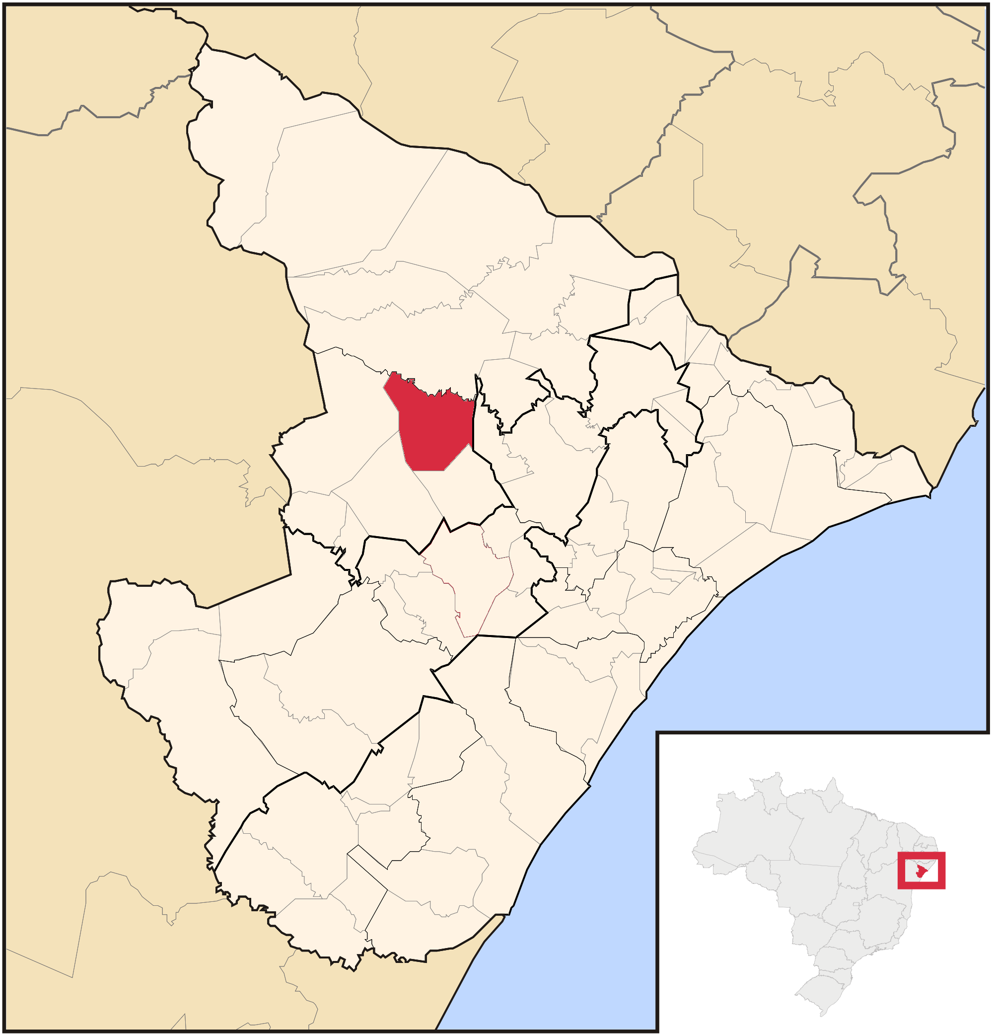 Locator map of Sergipe highlighting Nossa Senhora Aparecida (Sergipe)